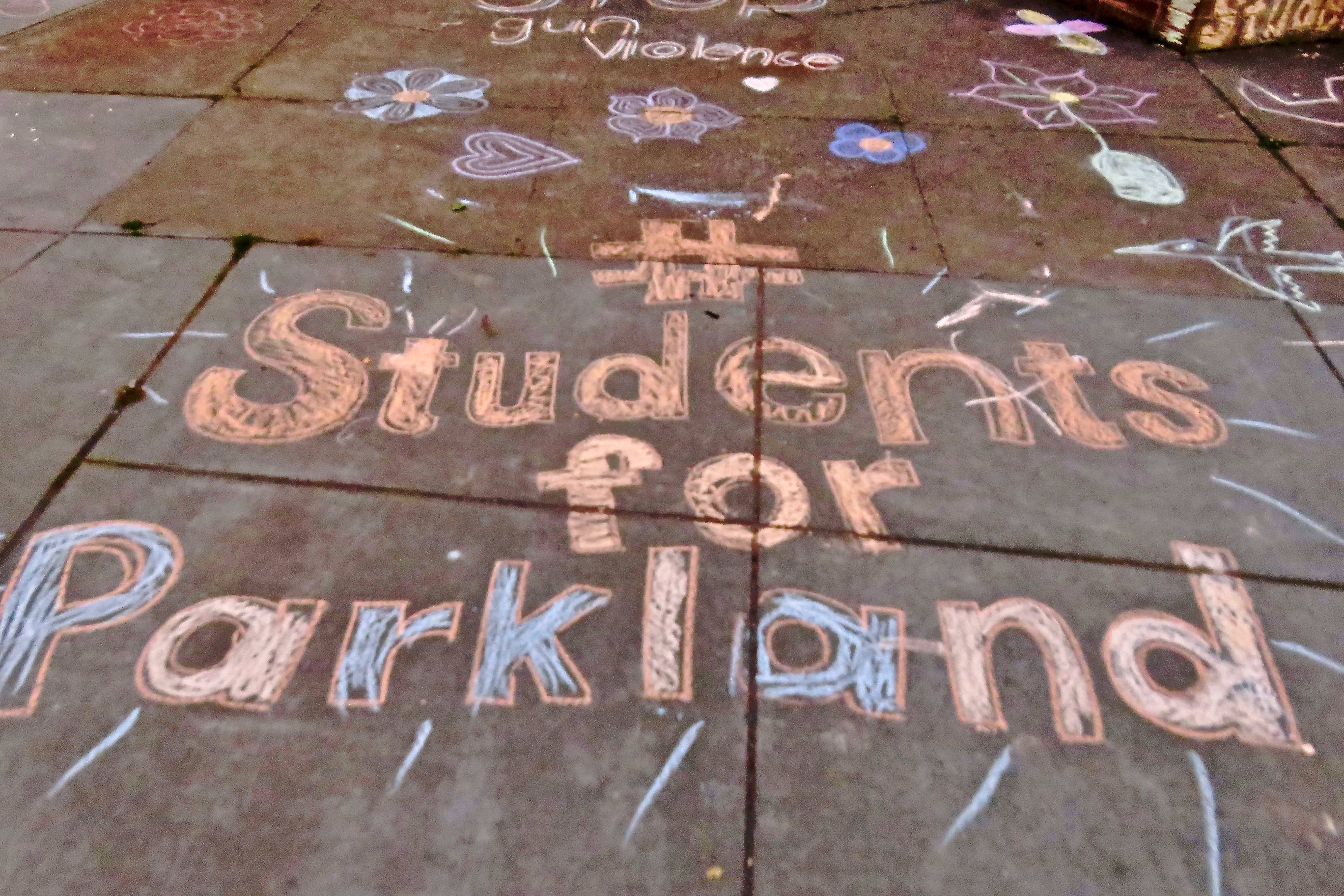 I participated in a moving vigil at Tam High School in Mill Valley for the victims of the recent school shooting in Parkland, Florida. Students organized this gathering in just a day and hosted nearly a hundred people of all ages, including news cameras from all major networks. They hosted this event at twilight on February 15, 2018, in front of their school’s entrance, passing around candles and orange wristbands to protest gun violence. They spoke from the heart about this tragedy, what it meant for them and what they plan to do about it. Other community members shared their views as well, including our friends at MVCAN, our political action group. In between speeches, we were invited to talk with people standing next to us, and it was a great opportunity to connect with people of different ages. We discussed a wide range of actions related to gun rights, mental health and violence, as well as the impact of fear, money and politics. I was inspired by these young people’s commitment to improving our world through constructive political action. See more of my photos of the Tam High Vigil: Learn more about the Tam High Vigil for Parkland: studentsforparkland, #tamstudentsforparkland, #wearorange